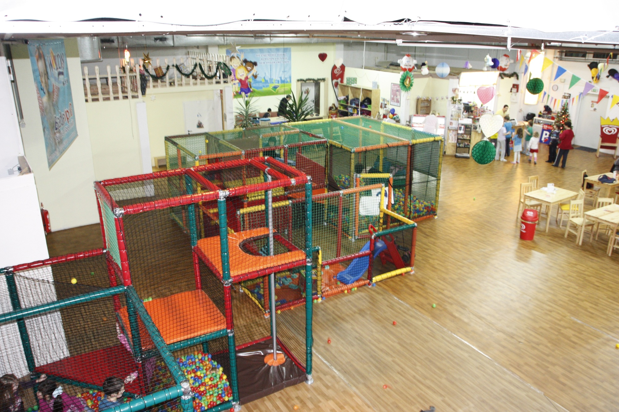 Playground with labyrinth